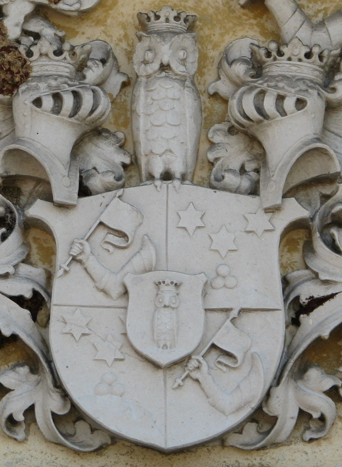 Coat of arms of Codelli family